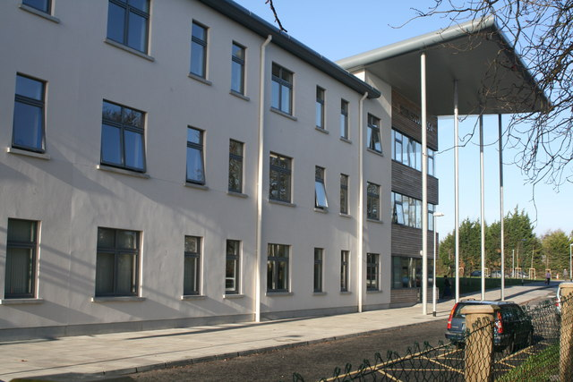 Malahide Community School, [aka Pobail Scoil Iosa] The Hill, Broomfield, Malahide, Co Dublin. This new school was officially opened on 5th October 2007. It was built on the grounds of the old Community school. This school is the largest Community school in the country, with c. 1,250 students.